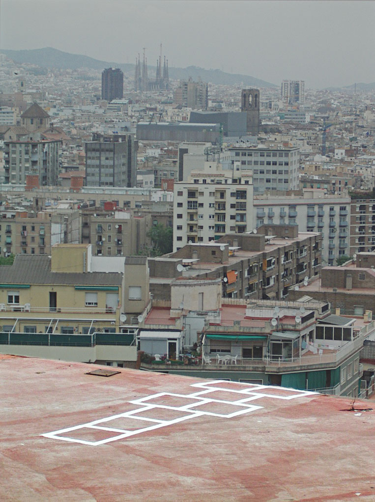 Hopscotch to oblivion, Barcelona, Spain. The best way to settle an argument is with a nice game of Hopscotch.